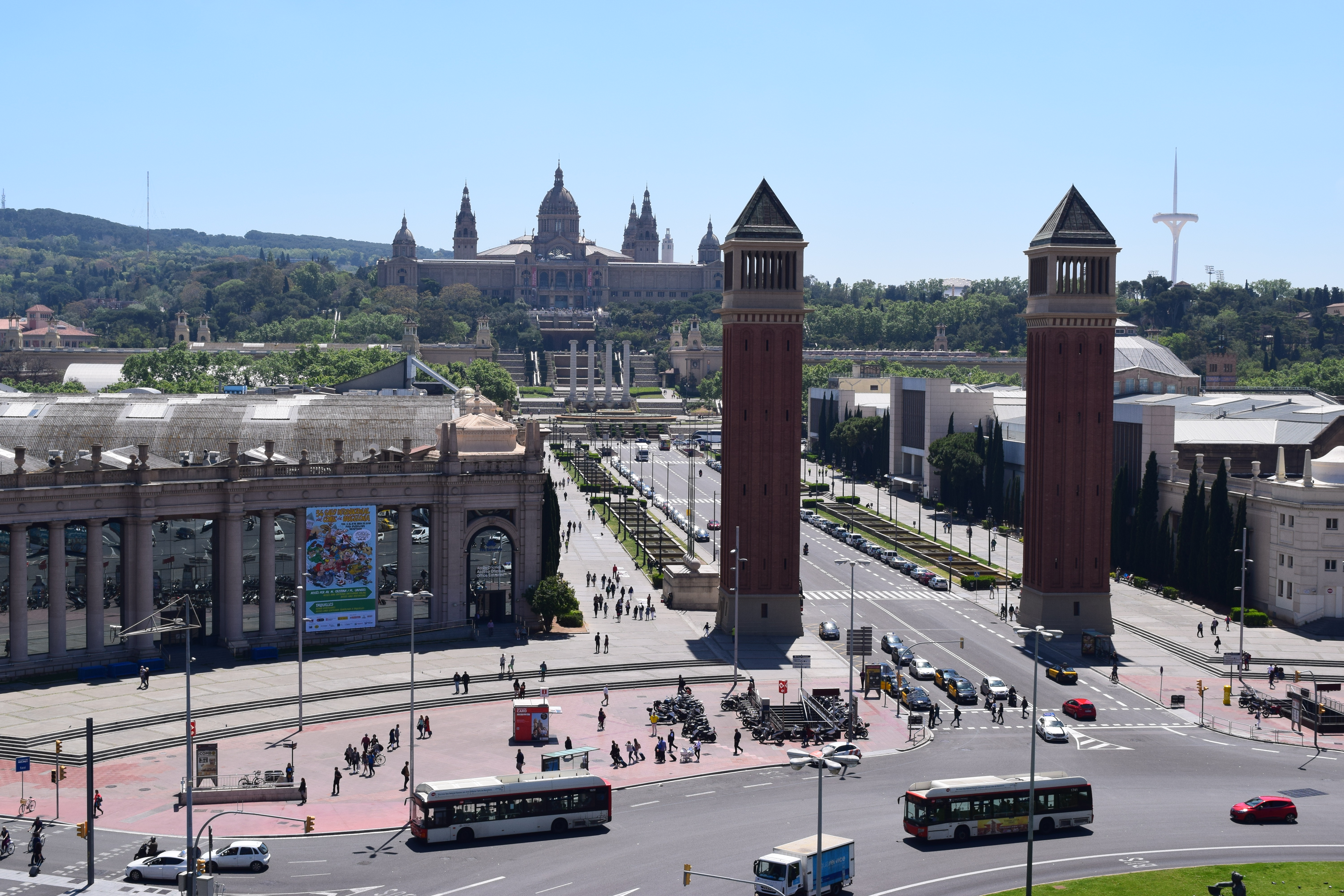 View of the Fira de Barcelona, located at the Plaça d'Espanya of Barcelona. Nex to it, the two Venetian Towers at the Reina Maria Cristina Avenue and, behind, the building of the Museu Nacional d'Art de Catalunya. The Barcelona's Trade Fair ist the currently location of the Internacional Comic Convention of Barcelona. The picture was taken from the roof of the shopping mall Arenas de Barcelona. Wednesday 4 may of 2016.